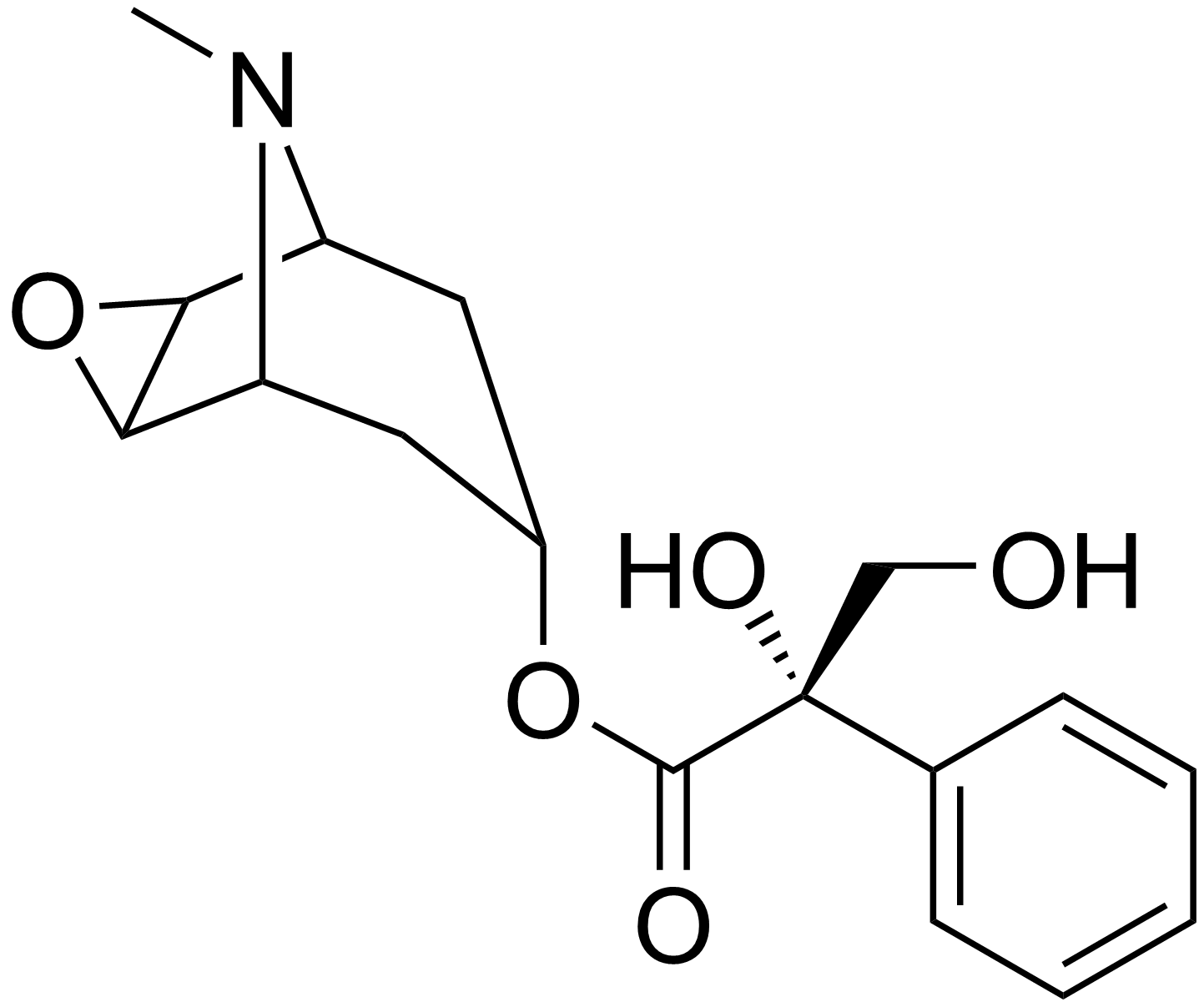 Chemical structure of anisodine (daturamine and α-hydroxyscopolamine)